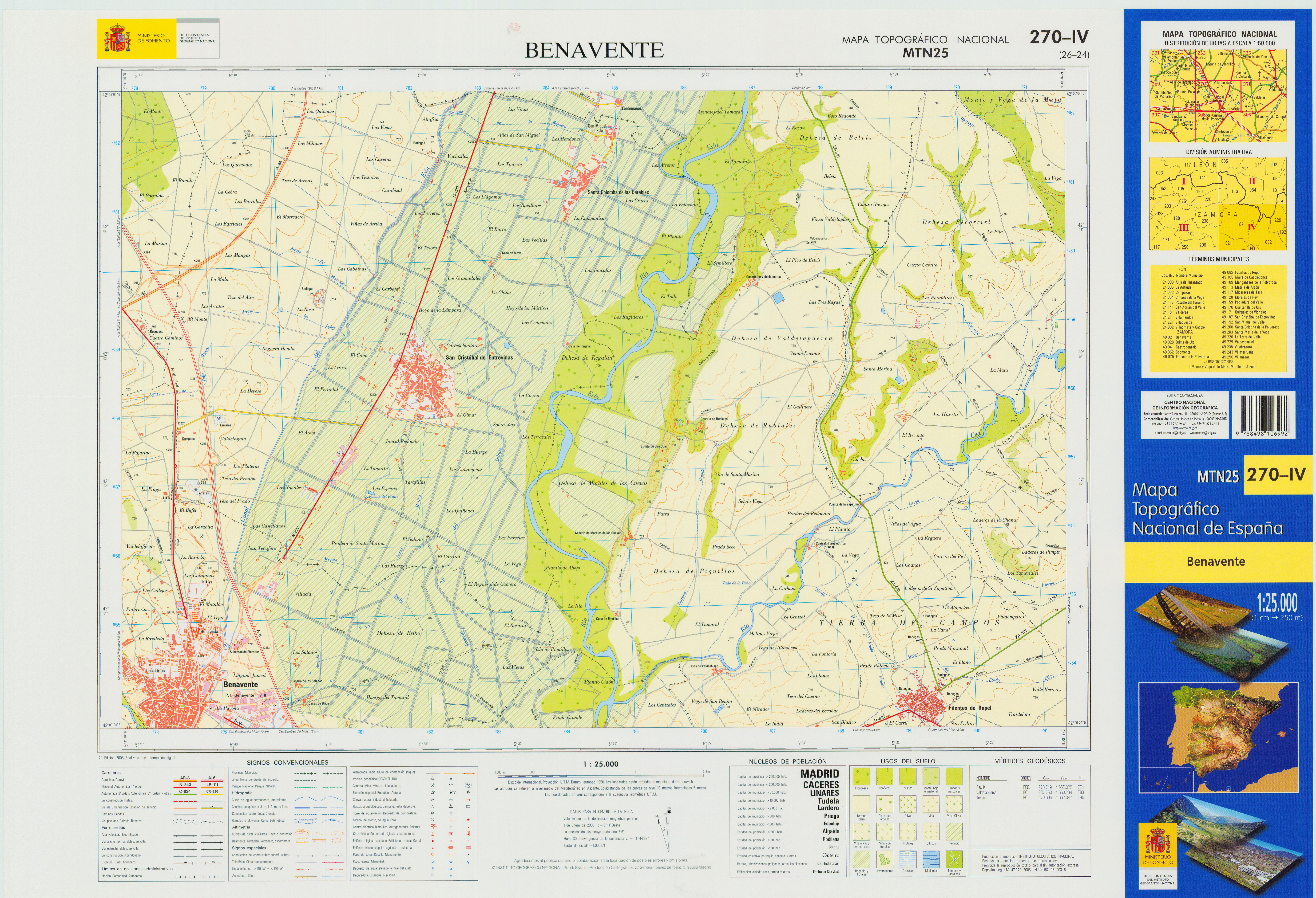 Fragment 0270c4 of the National Topographic Map of Spain in 2005 at a scale of 1:25000 printed and scanned with a resolution of 250 ppi. It shows Benavente.